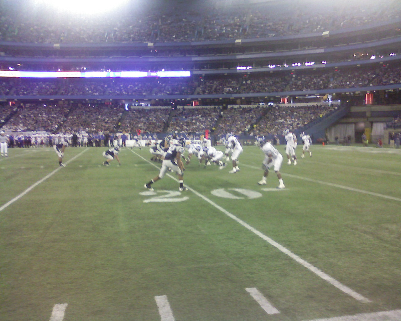 en:2008 Connecticut Huskies football team in blue versus en:2008 Buffalo Bulls football team in white at the en:2009 International Bowl